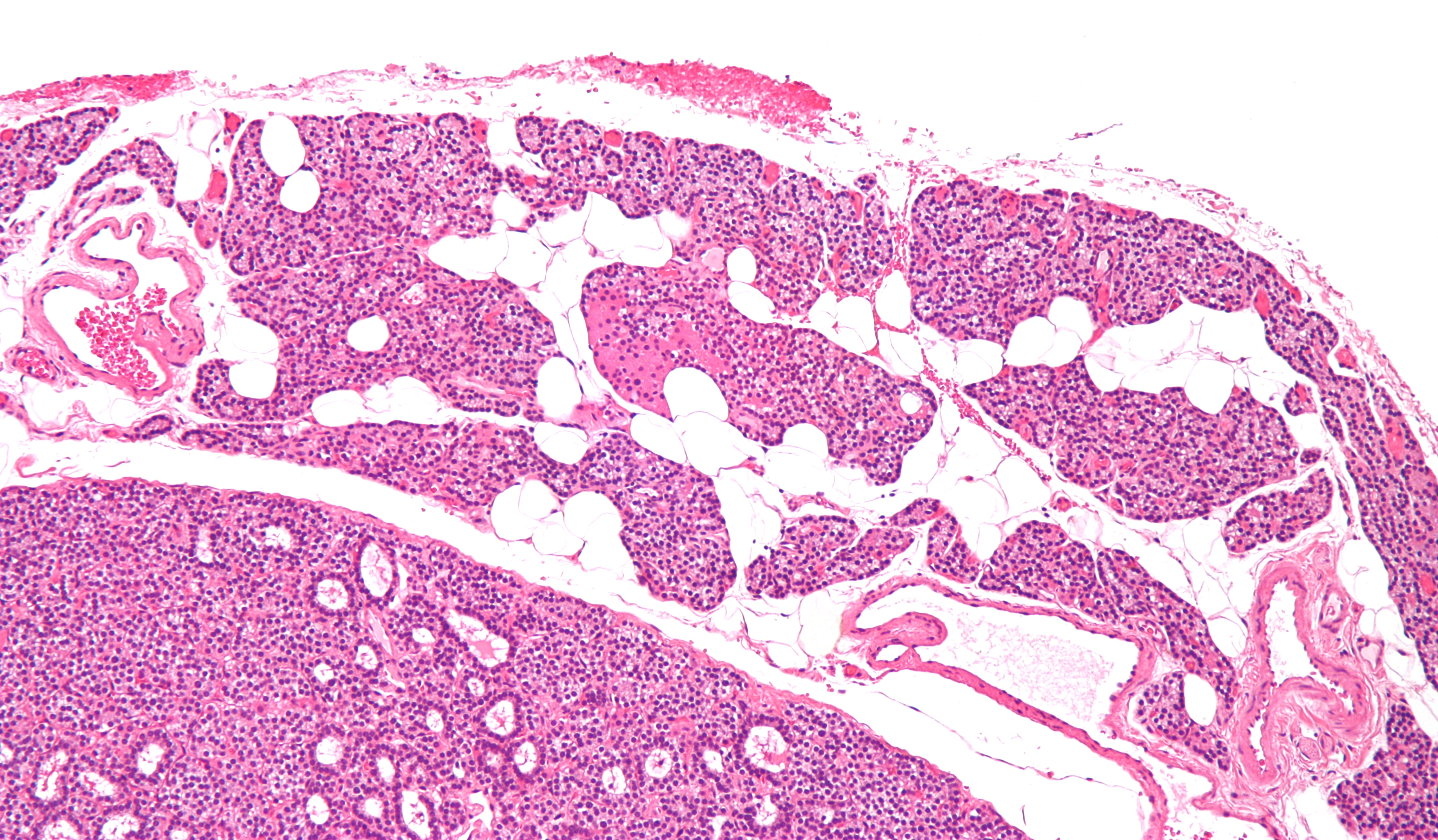 Low magnification micrograph of the parathyroid gland. H&E stain. Excised surgically for parathyroid adenoma - bottom left. Cells of the parathyroid: Parathyroid chief cells - intense hyperchromatic to eosinophilic cytoplasmic staining (see notes), abundant in number, moderate amount of cytoplasm, function - manufacture PTH. Oxyphil cells - moderate/light hyperchromatic to eosinophilic, rare, abundant amount of cytoplasm, function - not known. Adipocytes - seen in older people, increases with age. Notes: Cytoplasmic staining varies considerably on H&E preparations - it may vary from hyperchromatic to clear to eosinophilic. Chief cells tend to stain more intensely than oxyphil cells. Related images Parathyroid gland Low mag. Intermed. mag. High mag. High mag. (cropped) High mag. (cropped) Parathyroid adenoma Low mag. Intermed. mag. High mag.